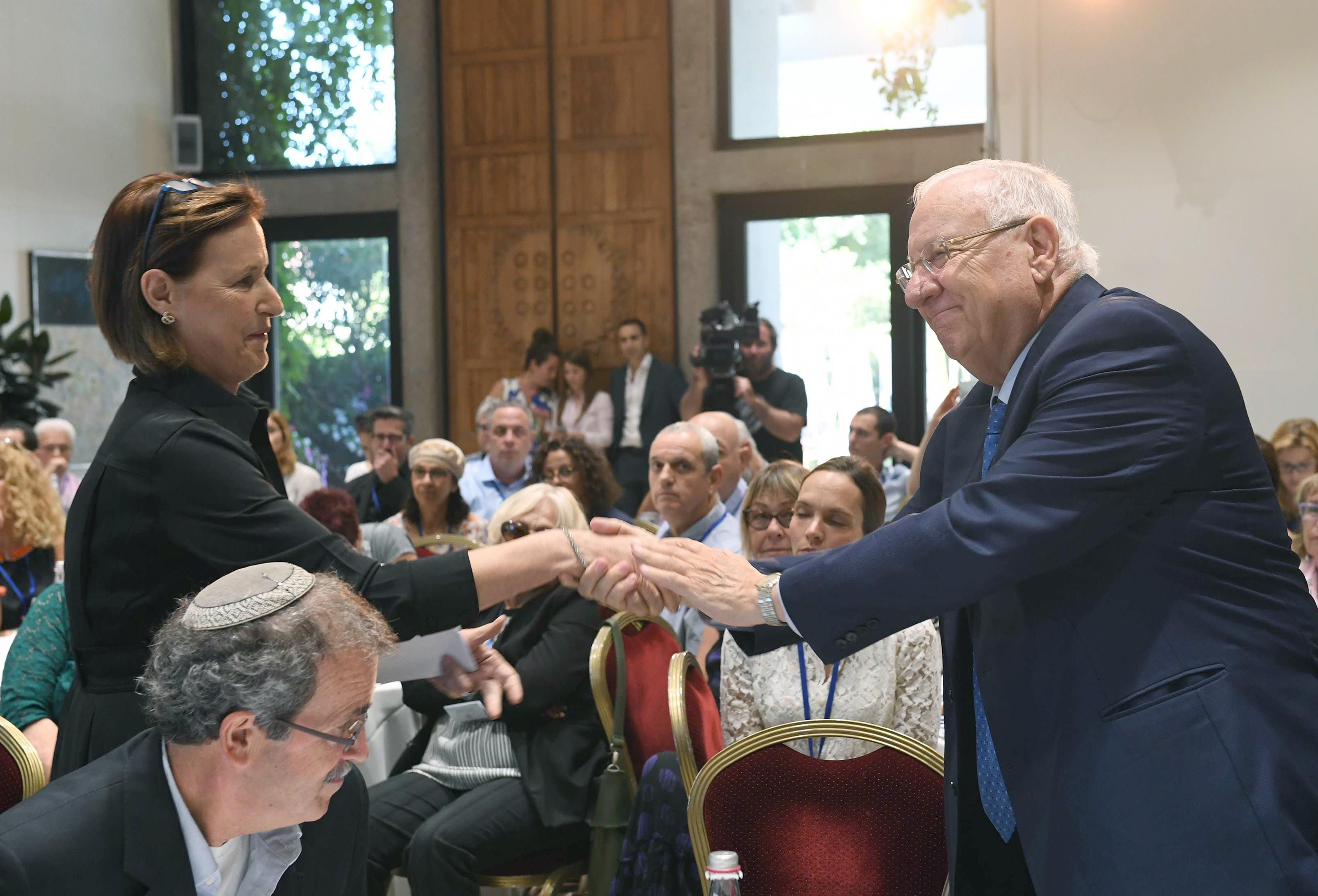 The President of Israel, Reuven Rivlin, is hosting the presidents of institutions of higher education in Israel for the annual event of «Israeli Hope at Academy». Sunday, October 1, 2017. Photo Credit: Mark Neyman / GPO.